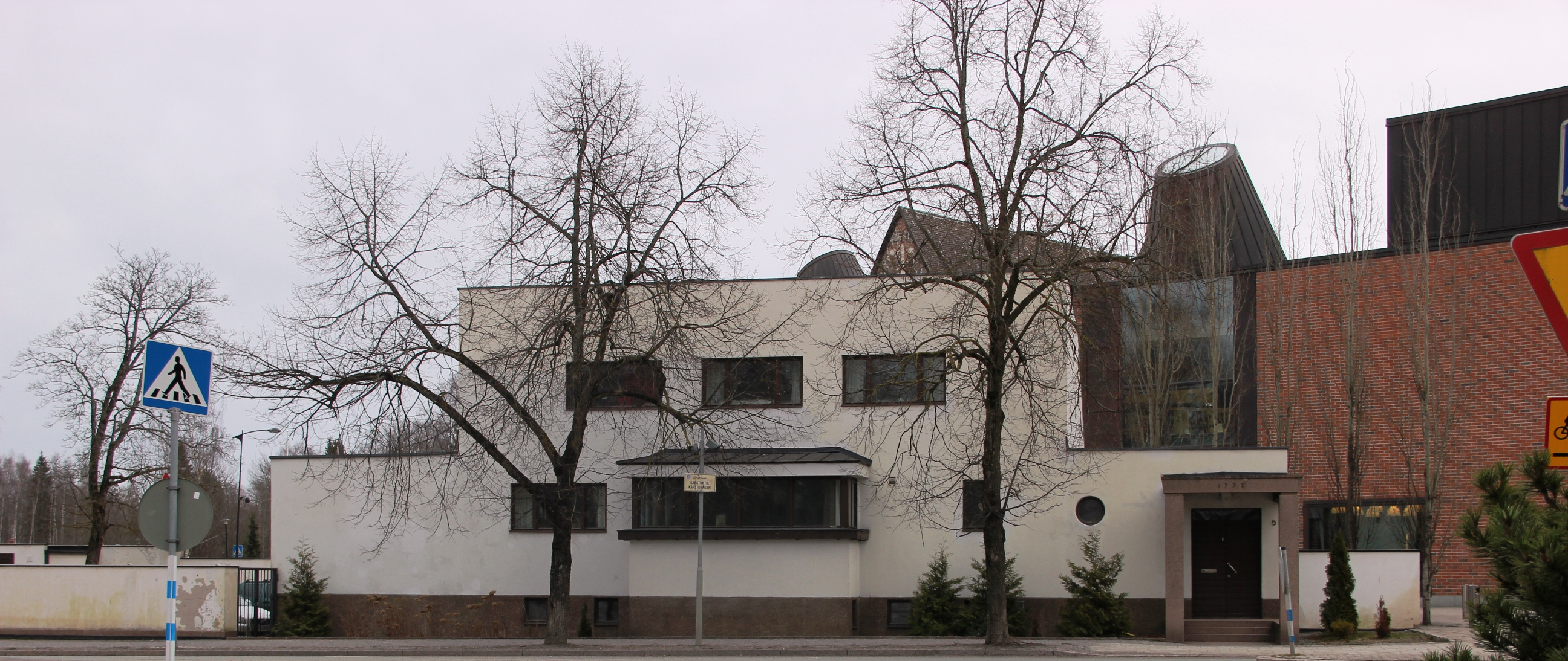 Stone Mason House, Karstuntie 5, Lohja, Finland. Architect: Oiva Kallio